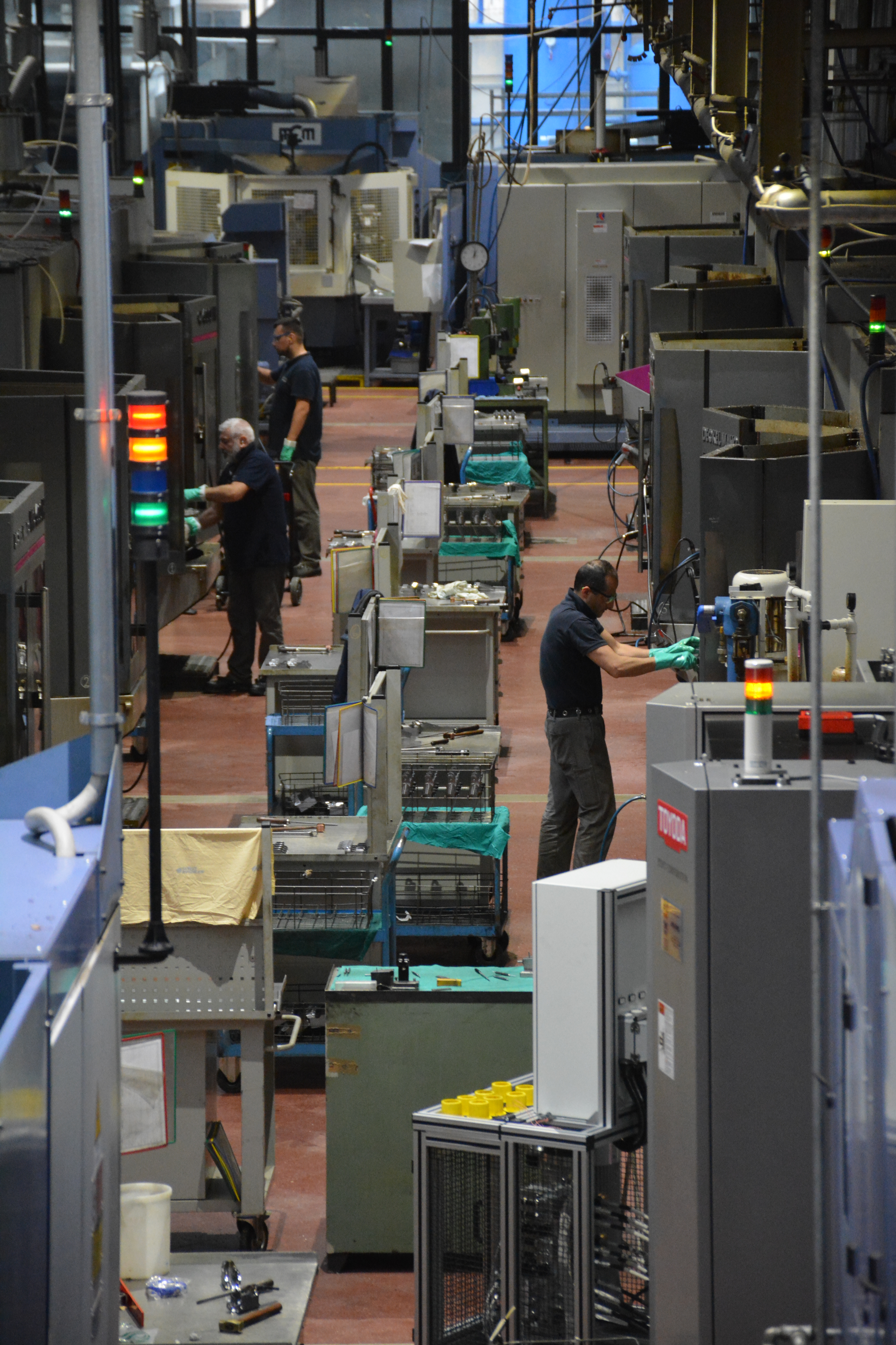 Workers on the production floor produce over 1500 weapons daily